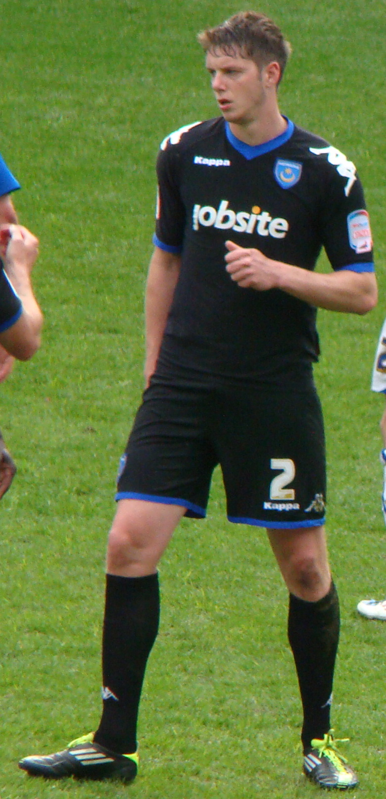 Greg Halford from 16/04/11 Cardiff V Portsmouth, Championship, Cardiff City Stadium, Cardiff, Wales